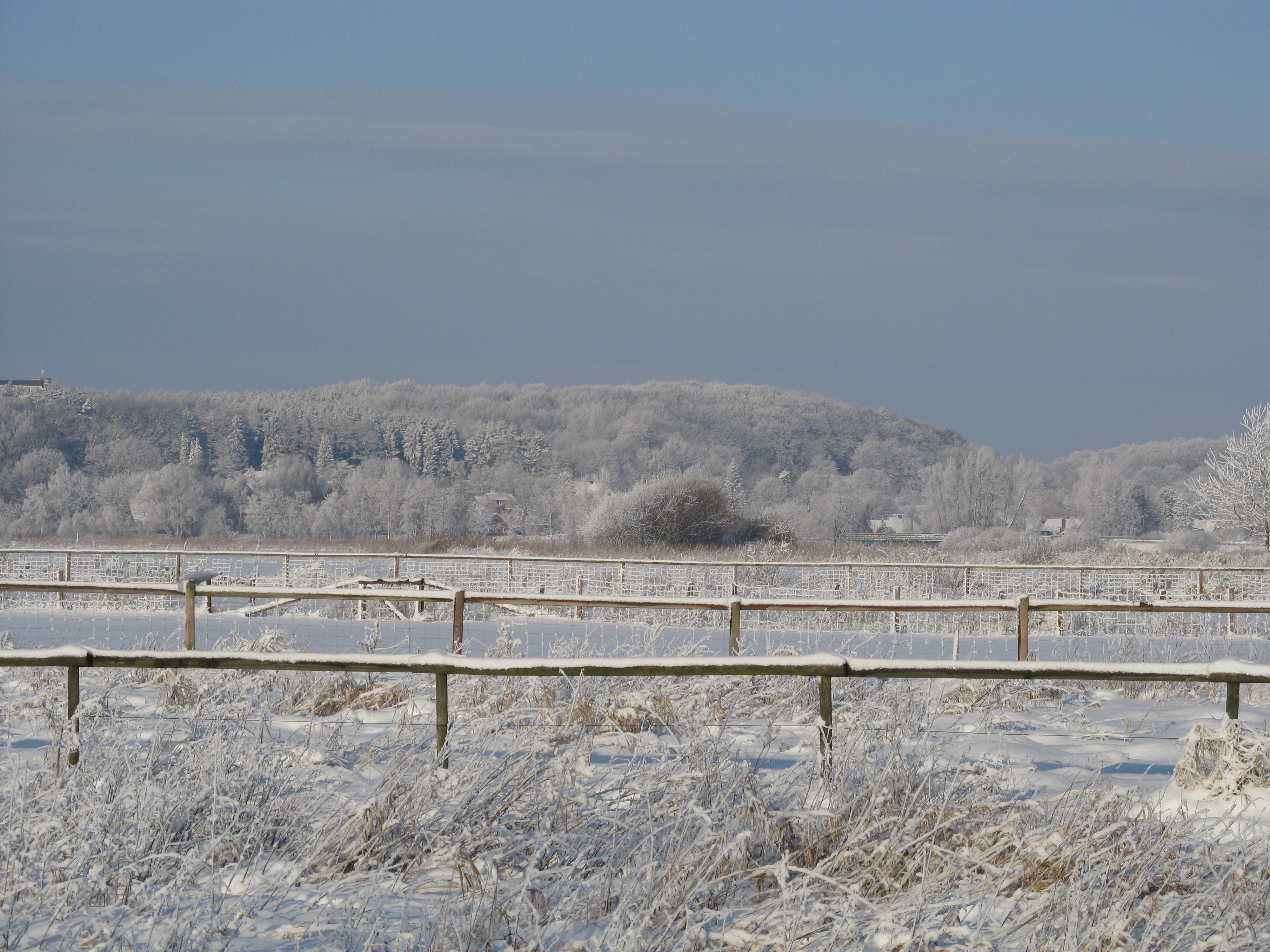 The Schwarze Berg (Black Mountain) as seen from the Schwingewiesen in early winter of 2010.